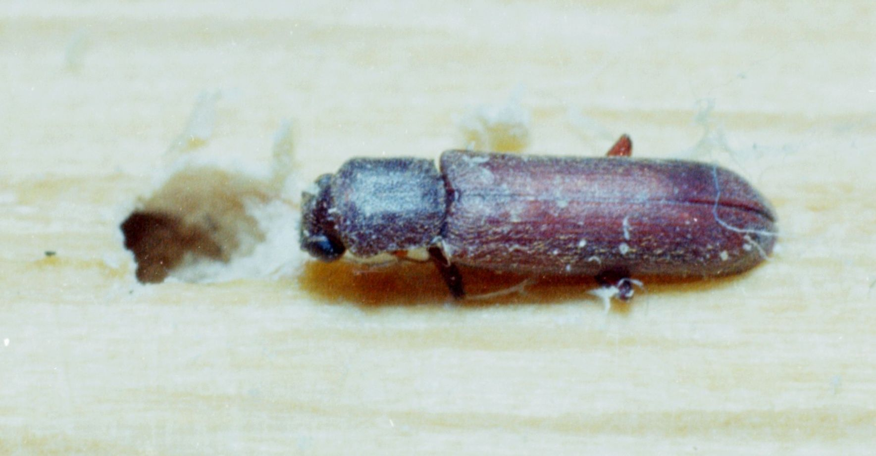 Europeann lyctus beetle, Lyctus linearis.